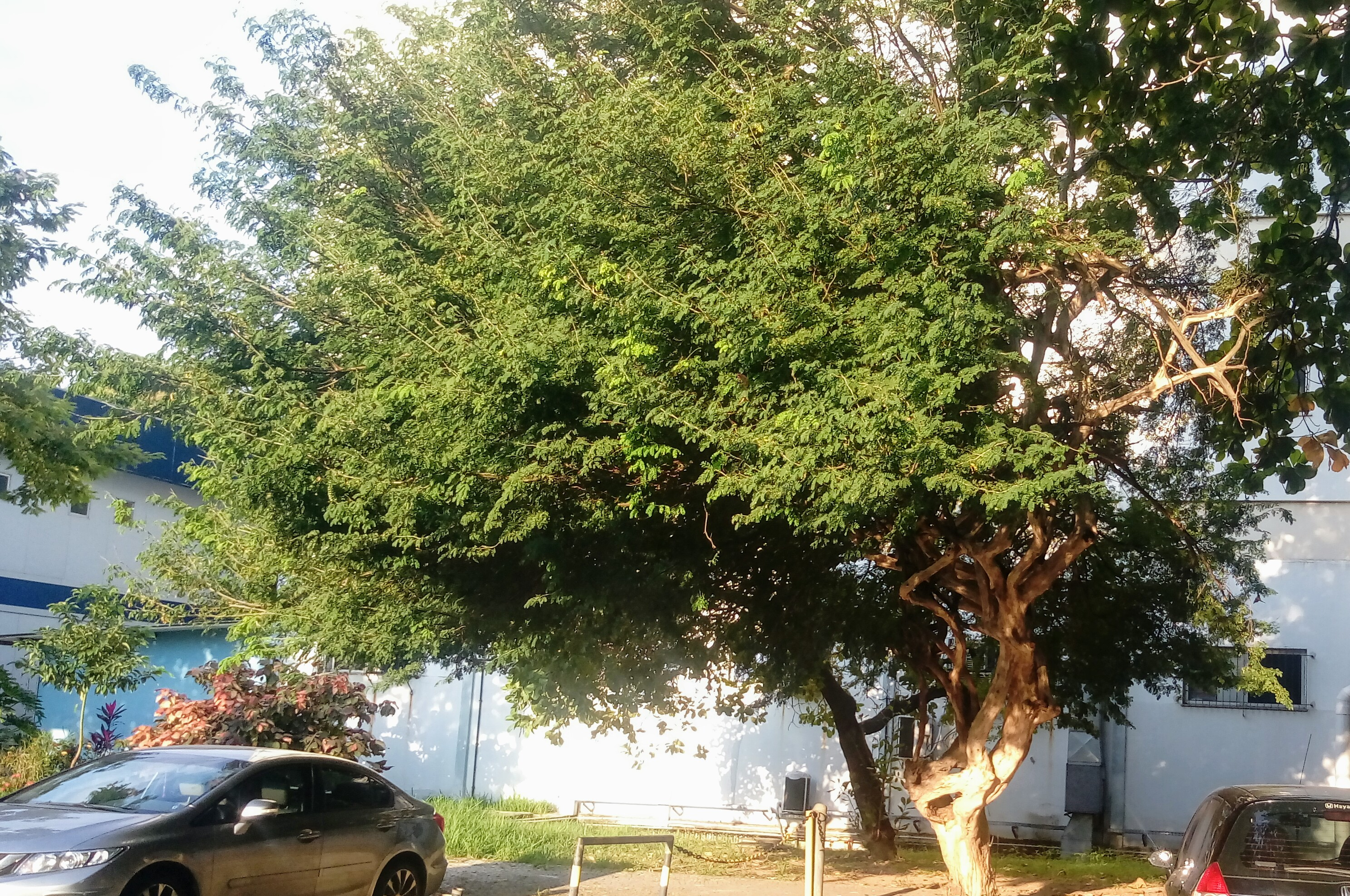 Chloroleucon tortum tree Standing on University of the State of Rio de Janeiro. Located in the front of Haroldo Lisboa building.